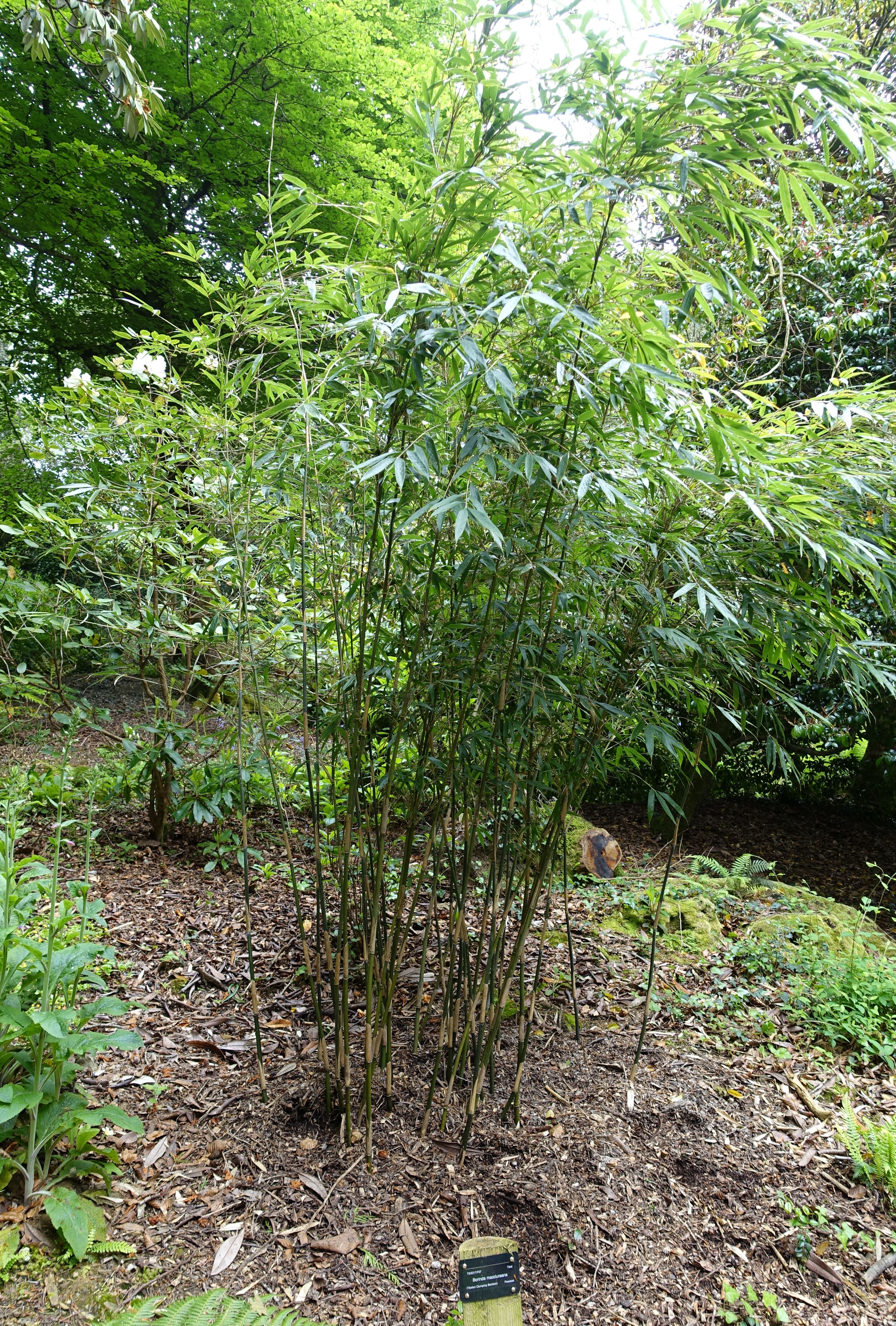 Horticultural specimen in Trebah Garden - Cornwall, England.